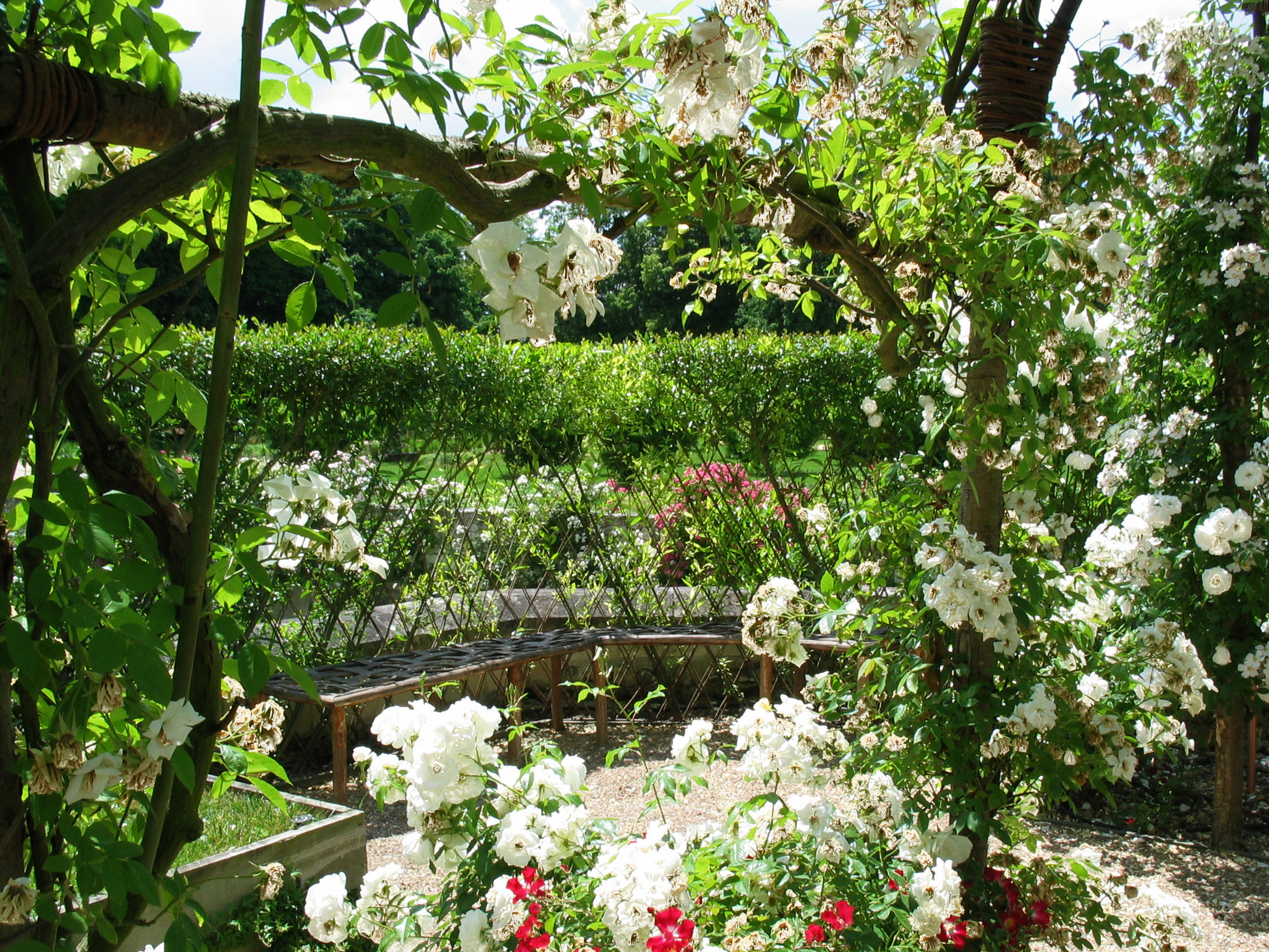 @château du Rivau